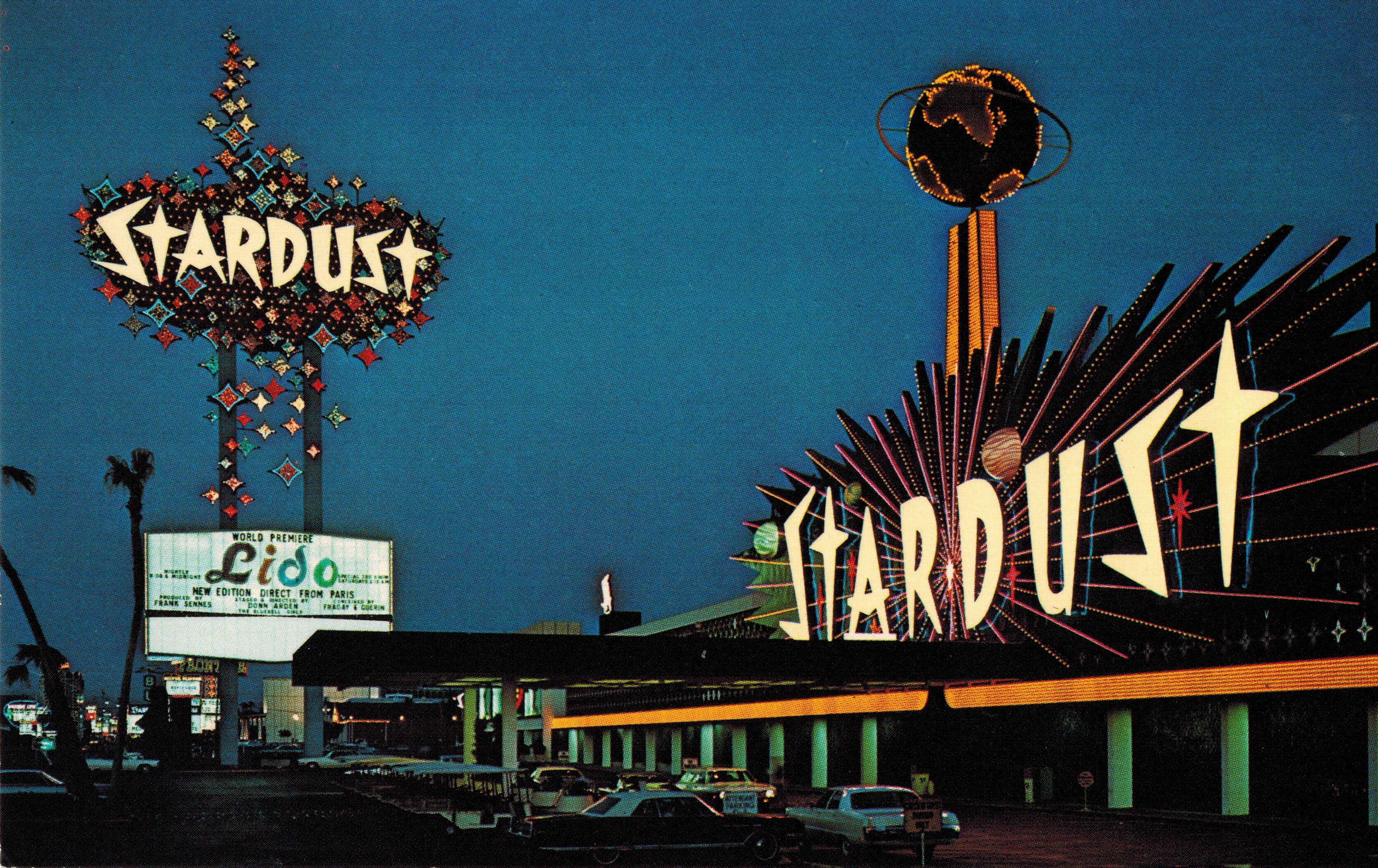 Postcard for Stardust Hotel, Las Vegas, Nevada. This unused postcard does not have a copyright claim. Based on the elements in the photograph, the photograph was taken after 1965 (when the starry cloud roadside sign was erected) and 1968 (when the facade sign was changed to the earth on a pylon) but before 1977 (when the starburst neon background of the facade sign was removed).